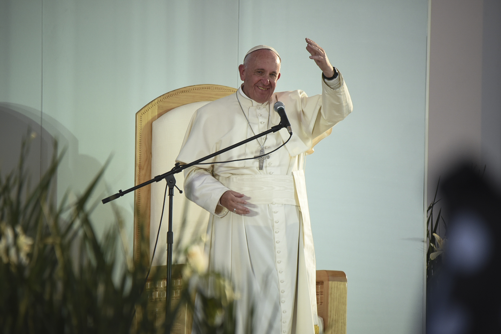 MORELIA;MEXICO: Tens of thousands of people greet Pope Francis at the 'Meeting with young people' at the Jose Maria Morelos Pavon Stadium on Tuesday February 16, 2016. Photo by Marko Vombergar